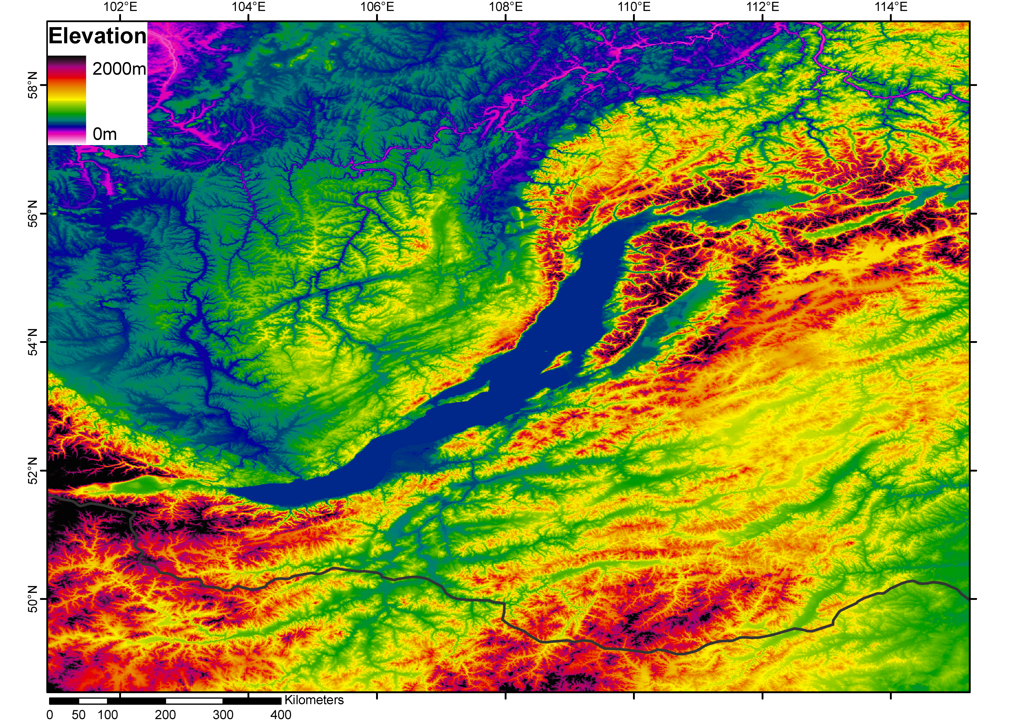 Digital elevation model (DEM) of Lake Baikal. The black line is the Russia-Mongolia boundary.